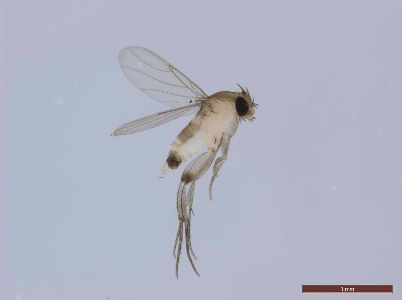 Scuttle fly, a male Megaselia, family Phoridae. Pereybere Mauritius, October 2012.